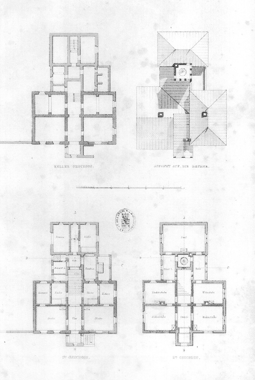 Ground plan and top view, Villa Schöningen, Potsdam, Germany